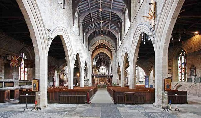 St Nicholas Cathedral, Newcastle - East end